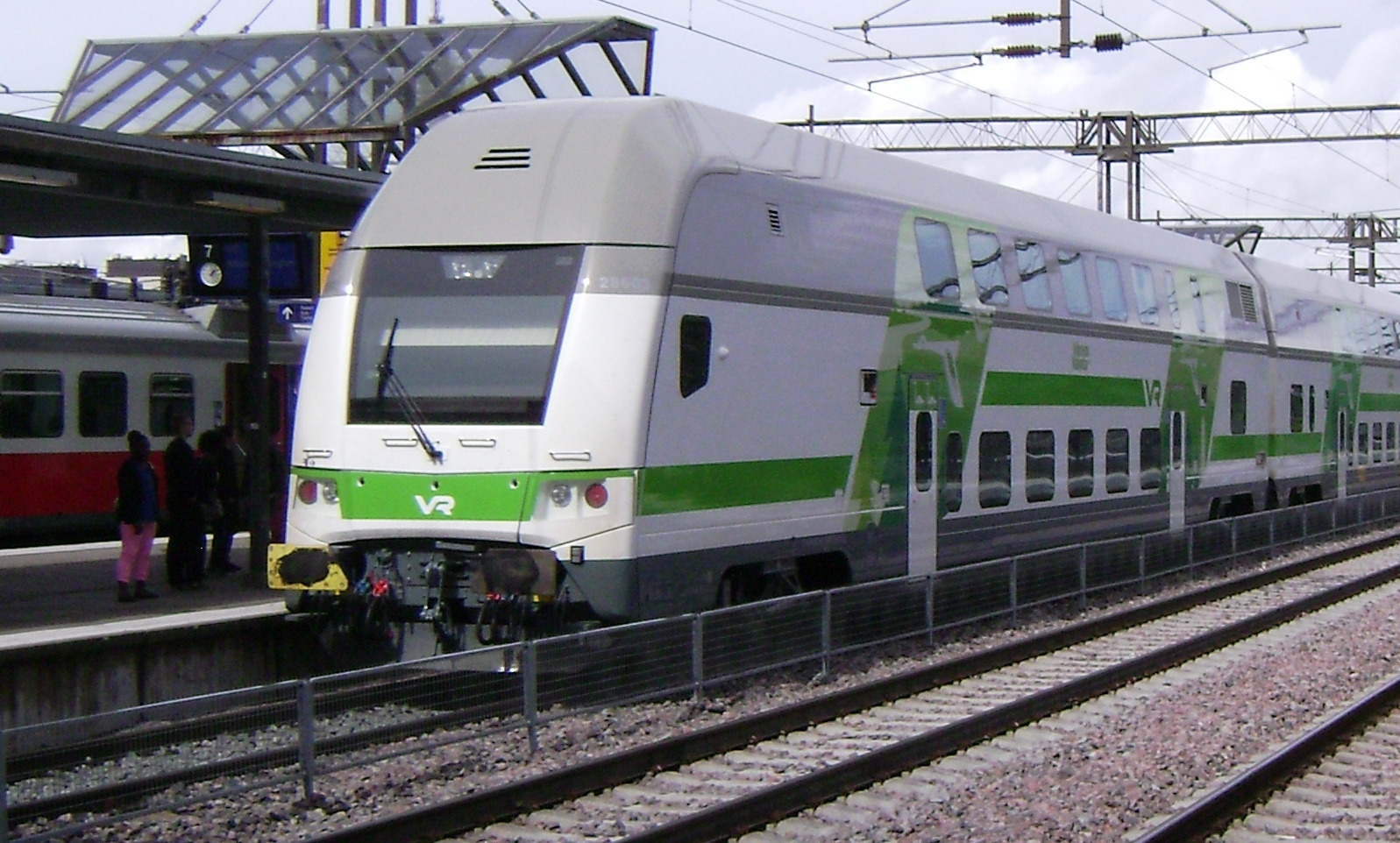 VR IC² train with new Class Edo driving coach.